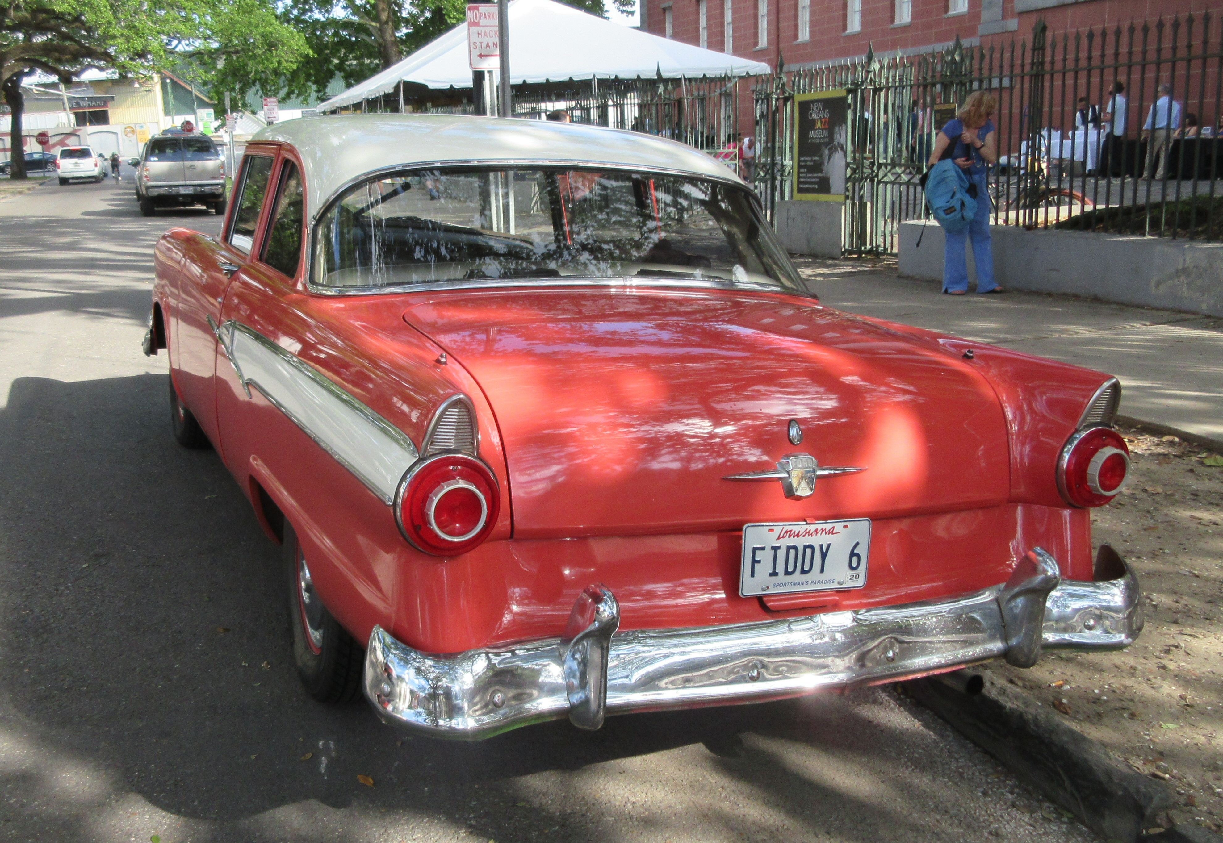 1956 Ford on Esplanade Avenue, French Quarter, New Orleans.